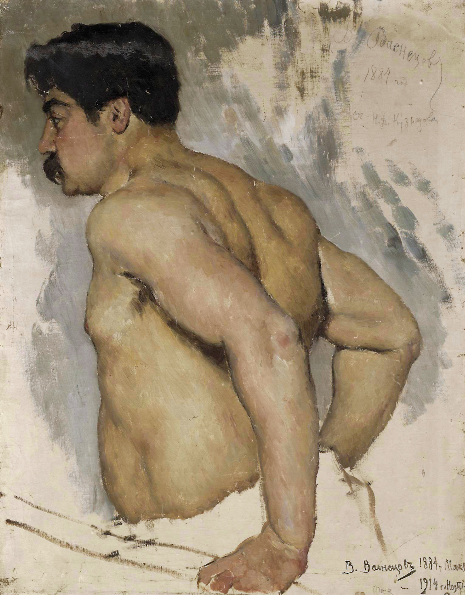 Portrait of the artist Nikolai Kuznetsov (1850-1929) signed in Cyrillic, inscribed in Russian and dated 'V. Vasnetsov/1884/N. D. Kuznetsov' (upper right), signed in Cyrillic, inscribed in Russian and dated 'V. Vasnetsov 1884 Moscow/Odessa-1914 November/6' (lower right) oil on canvas 89.2 x 69.9 cm.